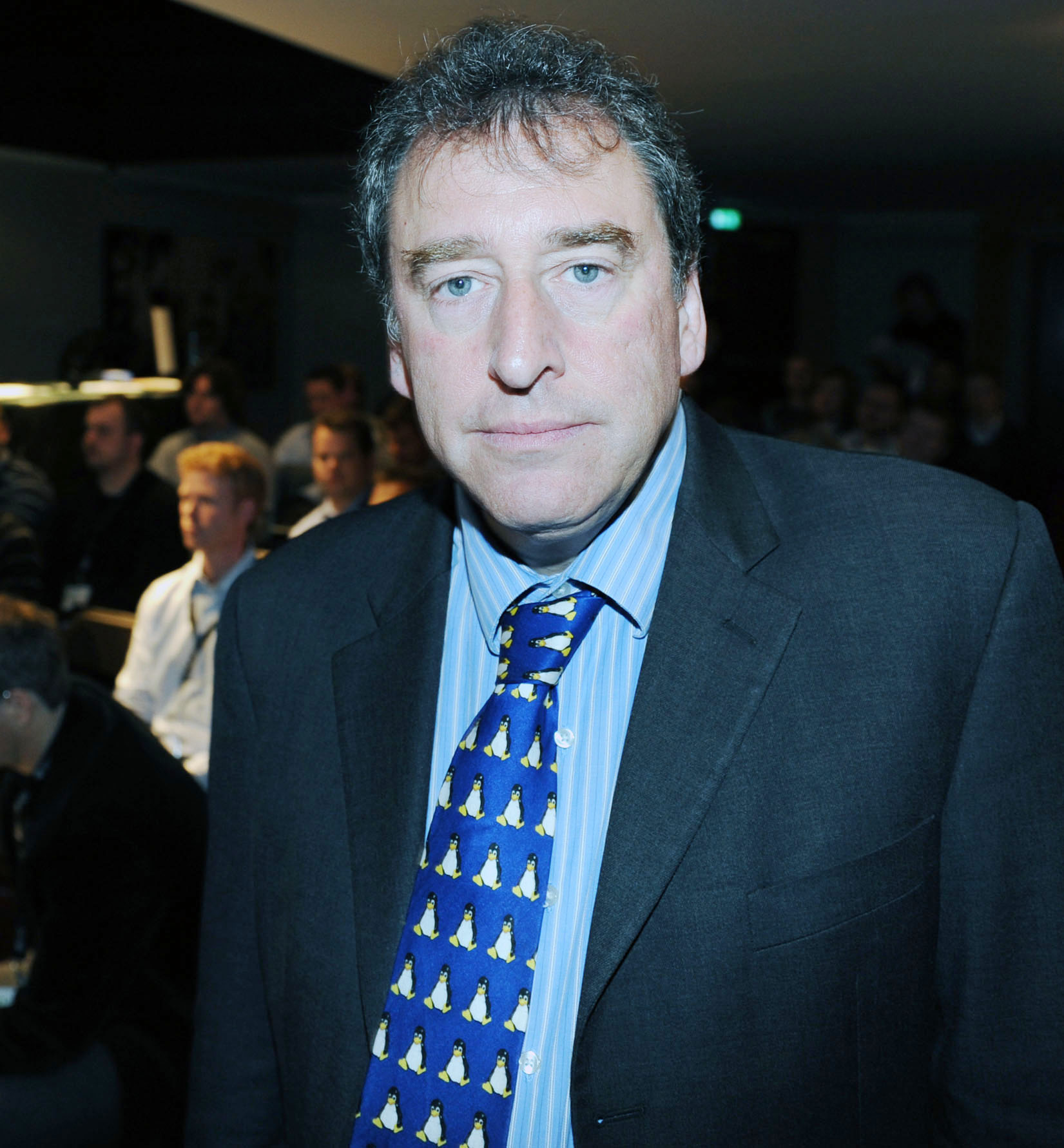 bruce perens 2009 (cropped)